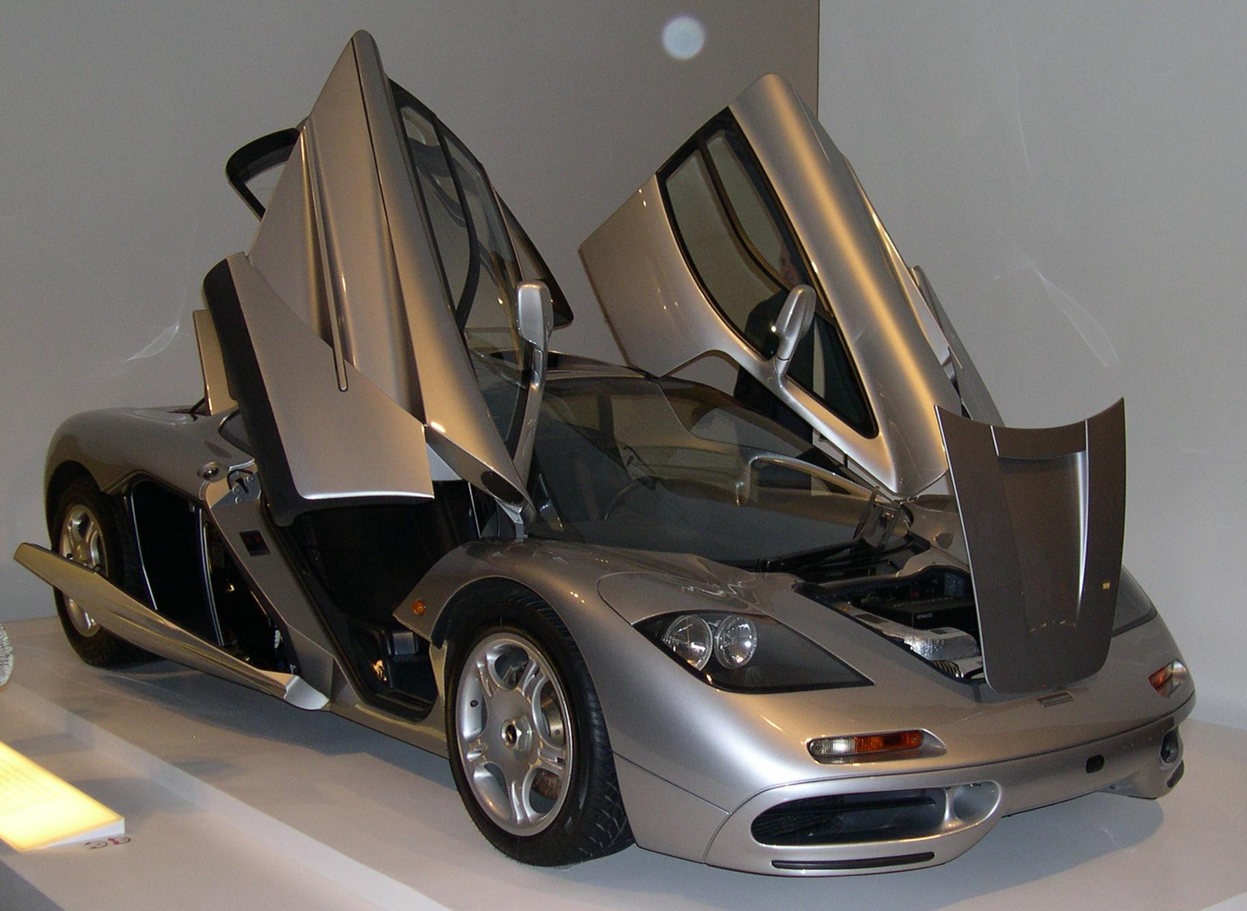 1996 McLaren F1 From the Ralph Lauren collection on display at the Boston Museum of Fine Arts. Photo taken in 2005. Source: Photo by User:Sfoskett